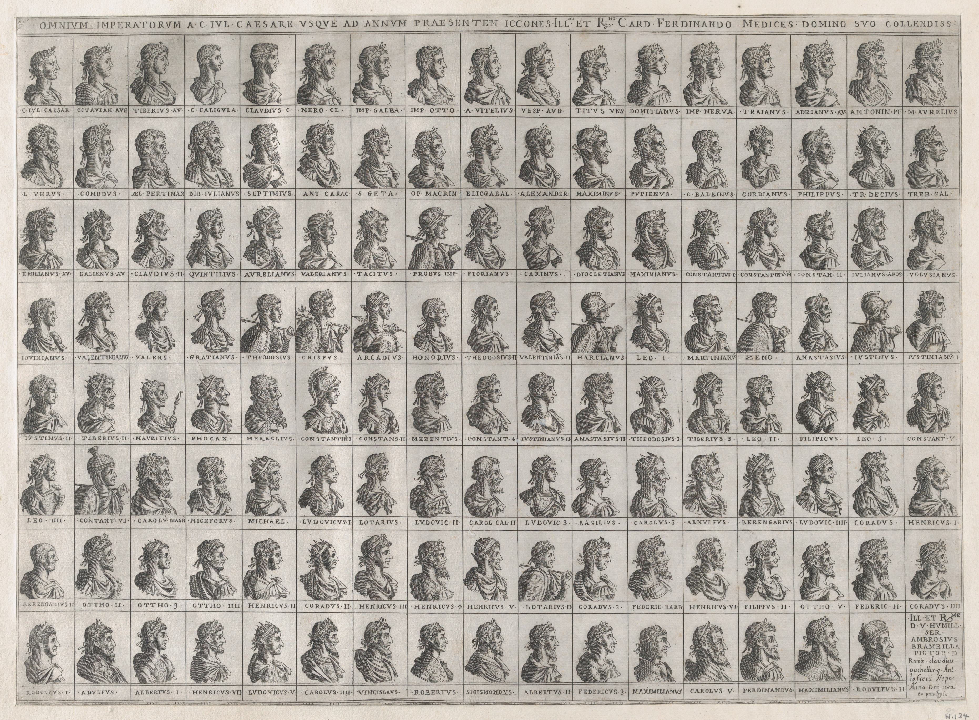 Print; Prints